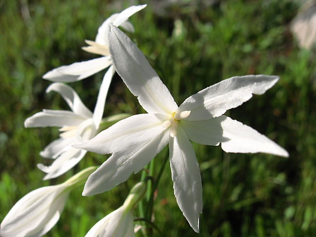 Leucocoryne ixioides (Hook.) Lindl.